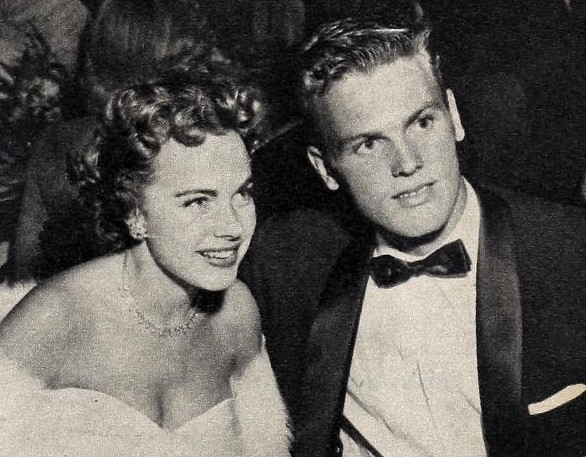 Terry Moore and Tab Hunter, 1954